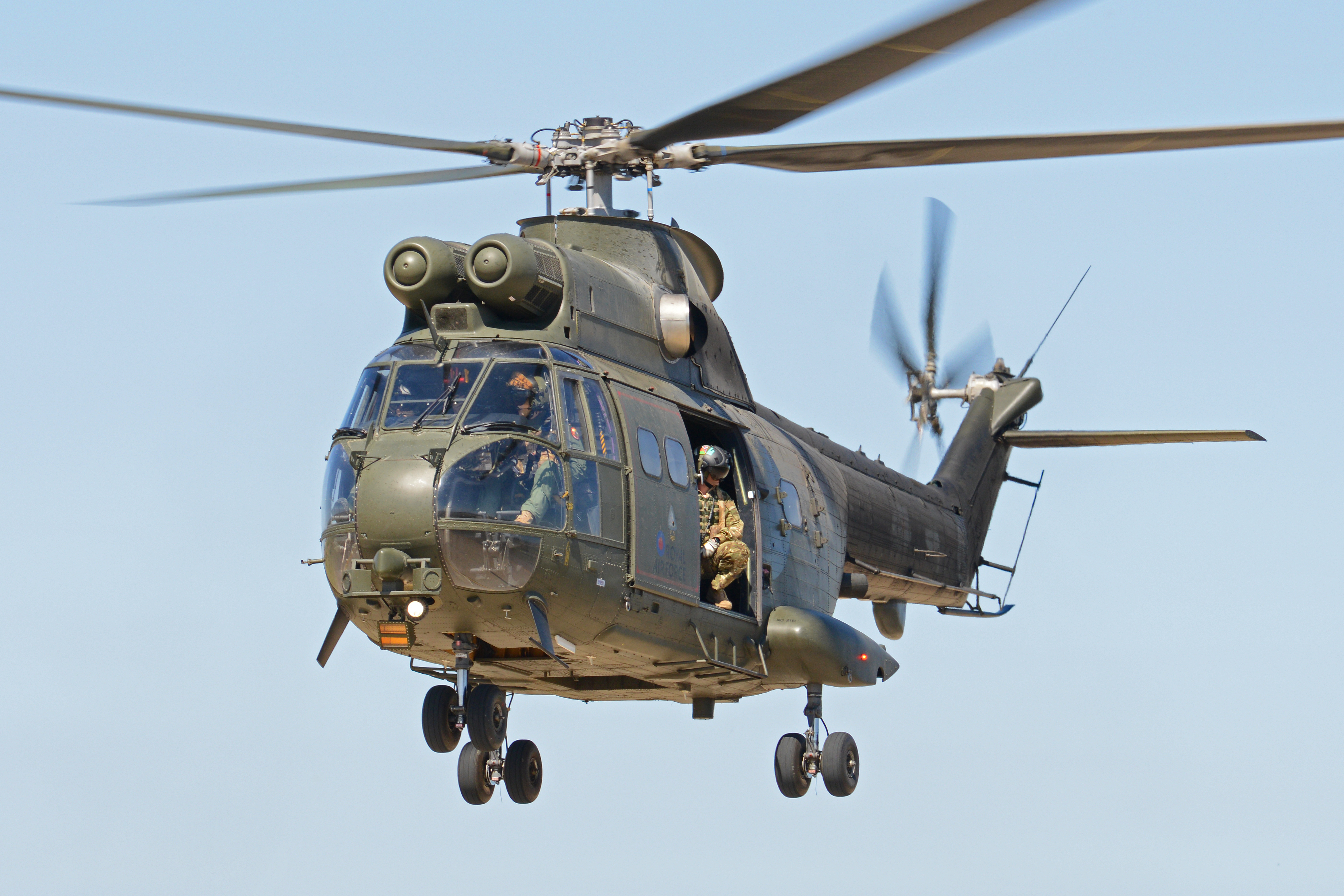 c/n 1120. Operated by 230sqn, Royal Air Force, based at RAF Benson. Seen during the 2016 NATO Tiger Meet (NTM) held at Zaragoza Air Base, Spain. 20th May 2016